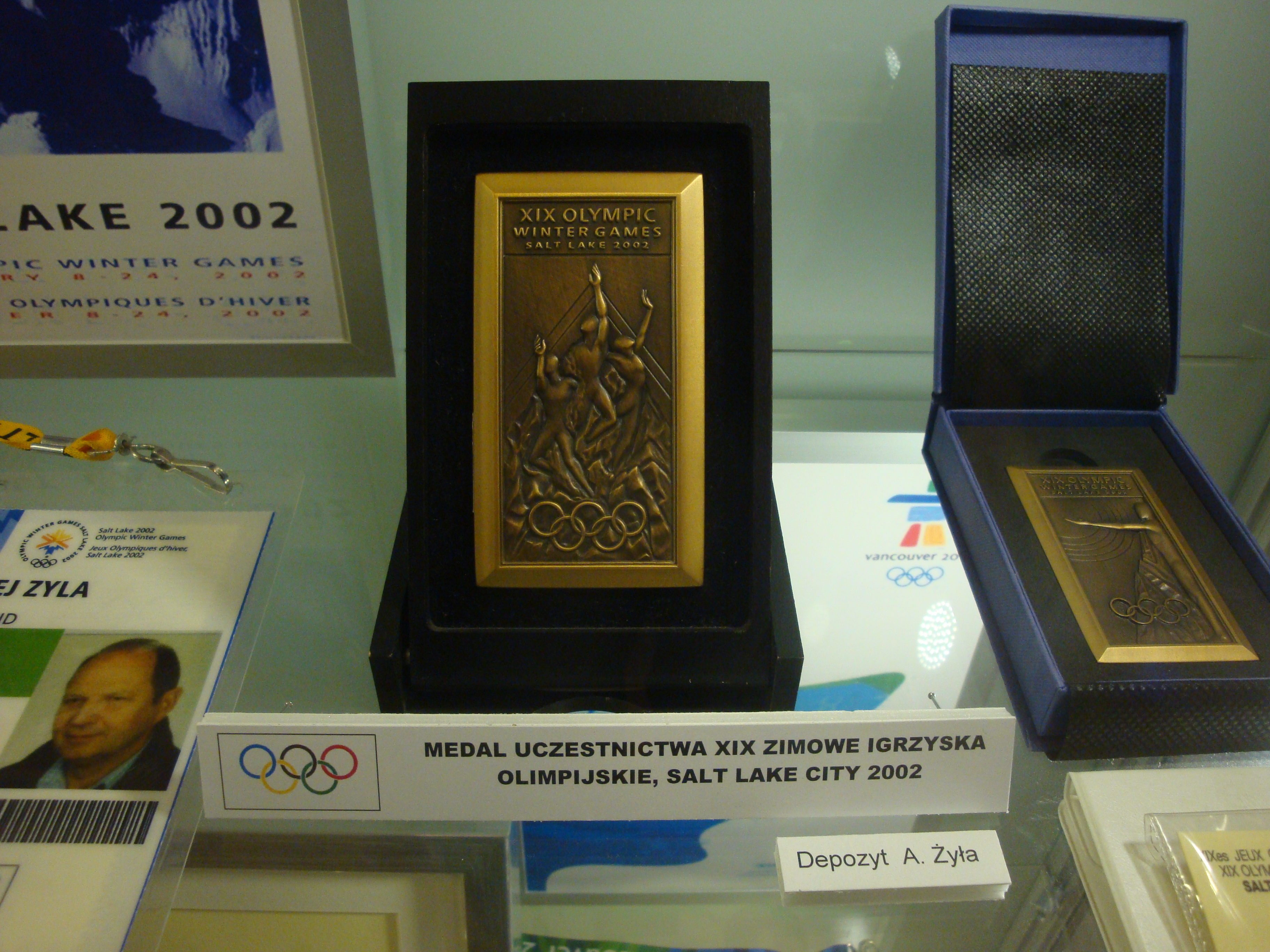 Medal for paticipant of Winter Olimpic Games 2002